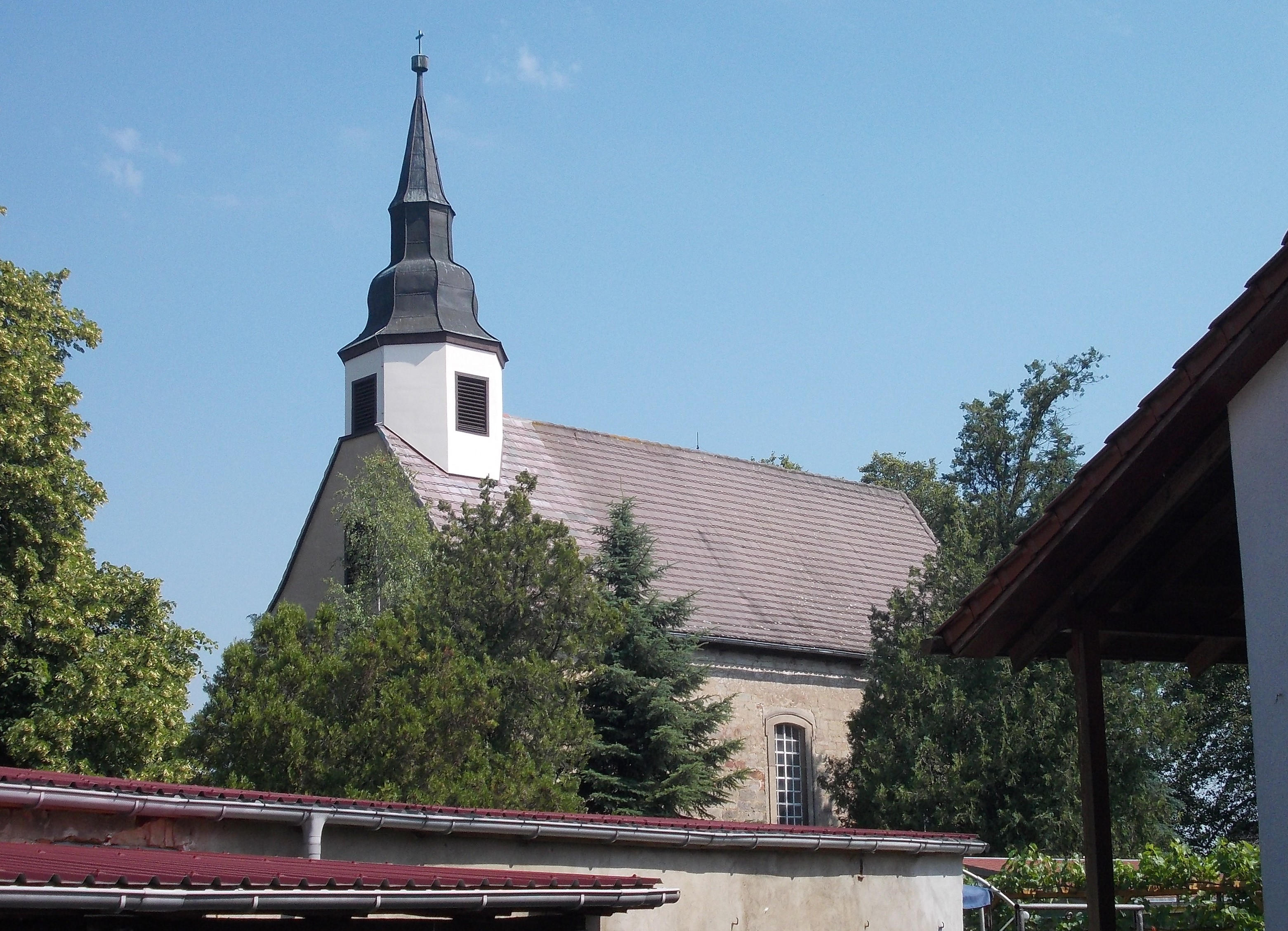 St. Andrew's Church in Goseck (district: Burgenlandkreis, Saxony-Anhalt)